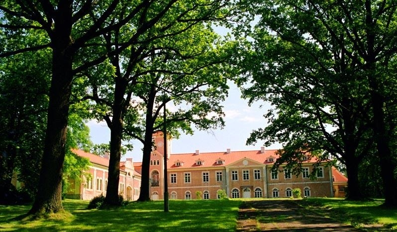 Palace in village Dobrocin, Poland